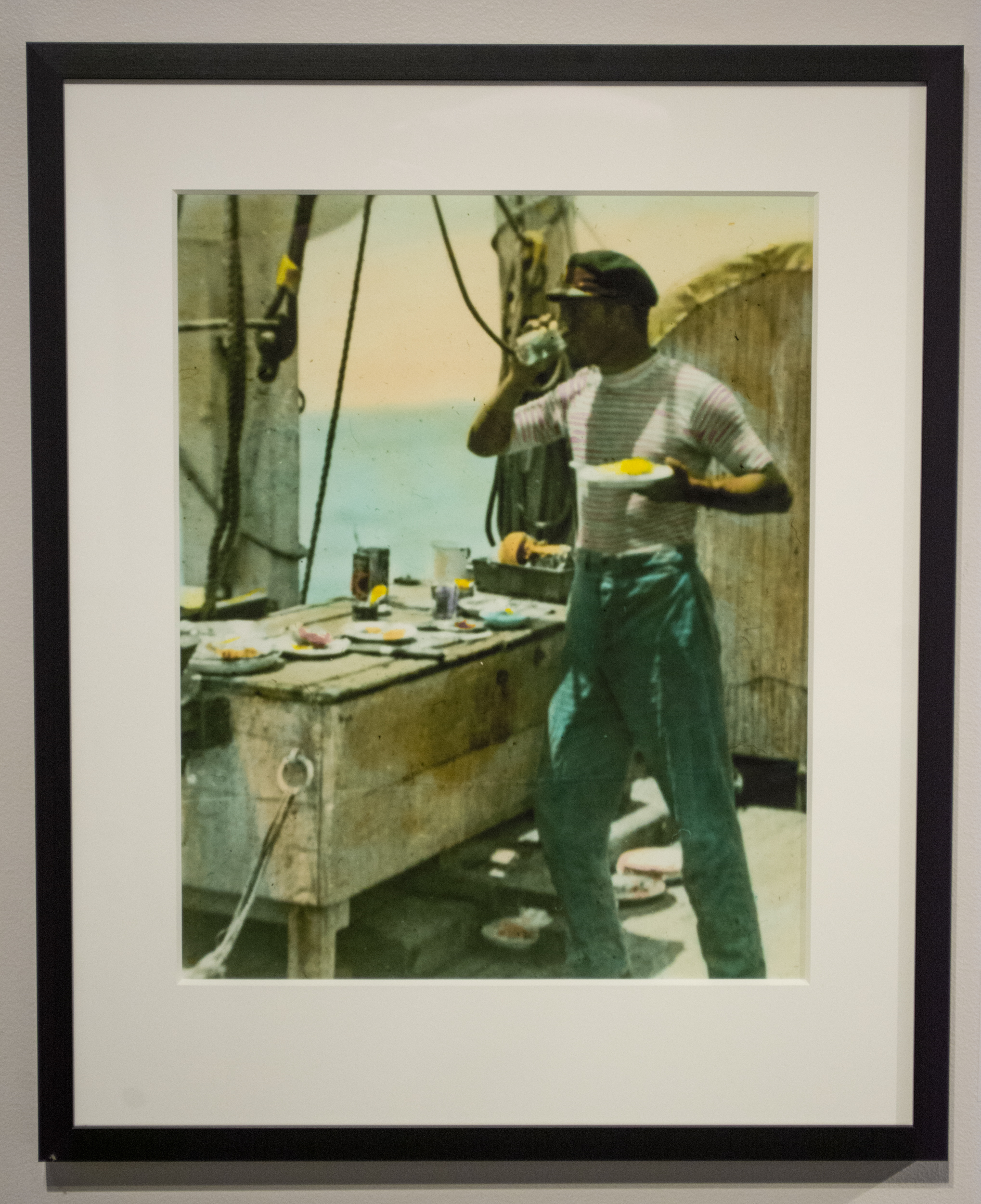 Photograph of expedition leader George Finlay Simmons having breakfast on the deck of the Blossom. Part of the exhibit "Sailing for Science: The Voyage of the Blossom", hosted by the Cleveland Museum of Natural History in Cleveland, Ohio, in the United States. The three-masted sailing ship Blossom left the United States for Africa, the South Atlantic, and South America on a speciment collecting expedition in 1922. The voyage was sponsored by the Cleveland Museum of Natural History. The ship returned in 1926 with more than 12,000 specimens.